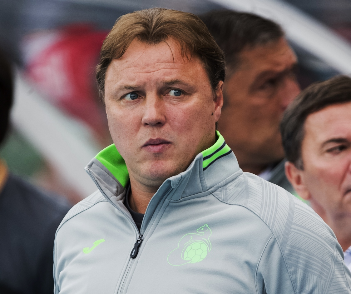 Igor Kolyvanov